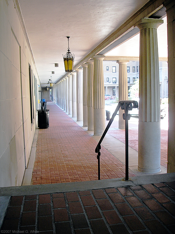 The Schenley Quadrangle at the University of Pittsburgh. photo by Michael G White